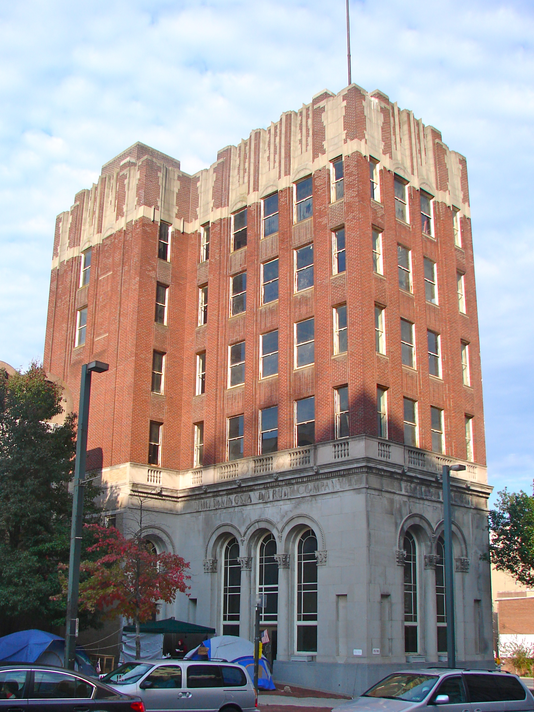 Dime Savings and Trust Company on the NRHP since January 3, 1985. At 12 North 7th Street, Allentown, Pennsylvania